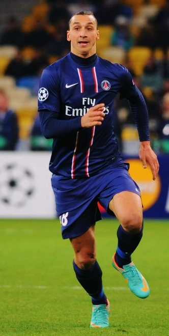 Zlatan Ibrahimović